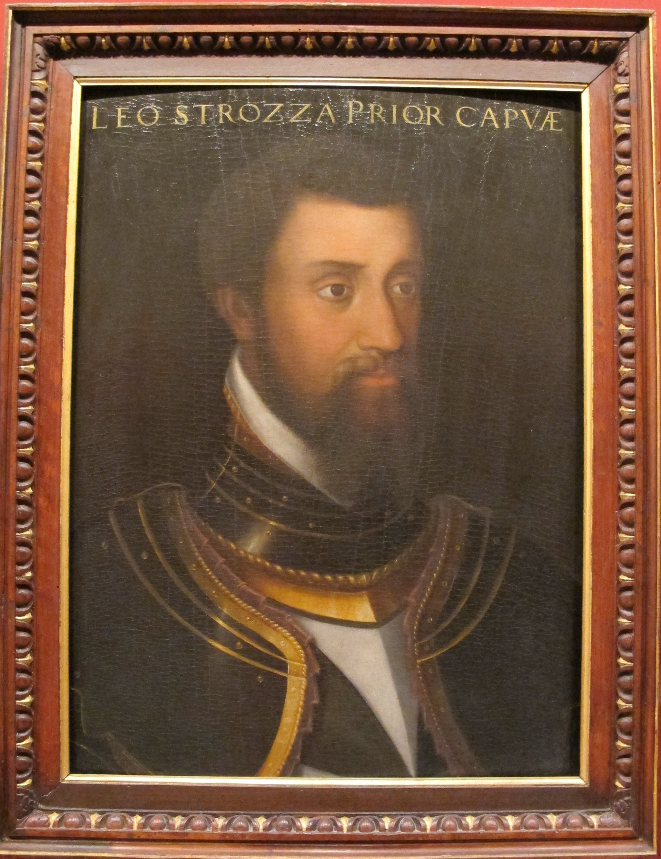 Leone Strozzi Cristofano dell'Altissimo (1525–1605) DescriptionItalian painterDate of birth/death 1525 21 September 1605 Location of birth/death Florence FlorenceWork location Florence Authority control : Q5186477 VIAF: 77455965 ISNI: 0000 0000 8060 5835 ULAN: 500008488 WGA: ALTISSIMO, Cristofano dell' GND: 131756966 creator QS:P170,Q5186477